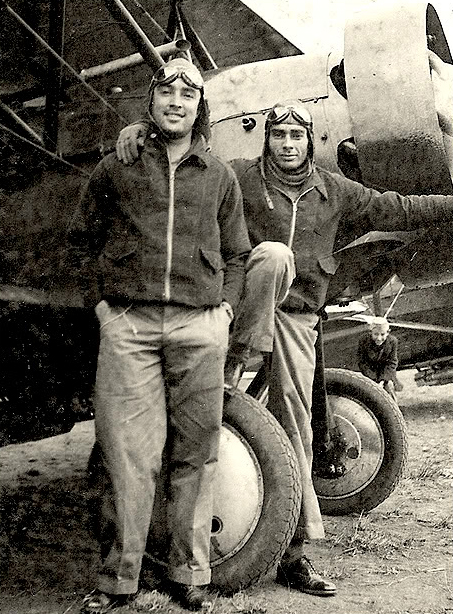 The aviators Mario Machado Bittencourt and José Angelo Gomes Ribeiro, in 1932 at the Campo de Marte, São Paulo, Brazil.